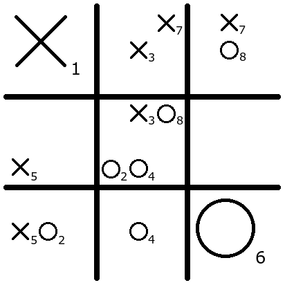 A game of Quantum Tic-Tac-Toe, with two squares already collapsed (classically marked) and several squares entangled. A cyclic entanglement has been created by O's last move, but has not yet been resolved. No matter which way X resolves the entanglement, O will get a tic-tac-toe. However, X can still salvage half a point for his own tic-tac-toe in the top three spaces. See Image:QuantumTicTacToeCollapsed.png for X's decision.